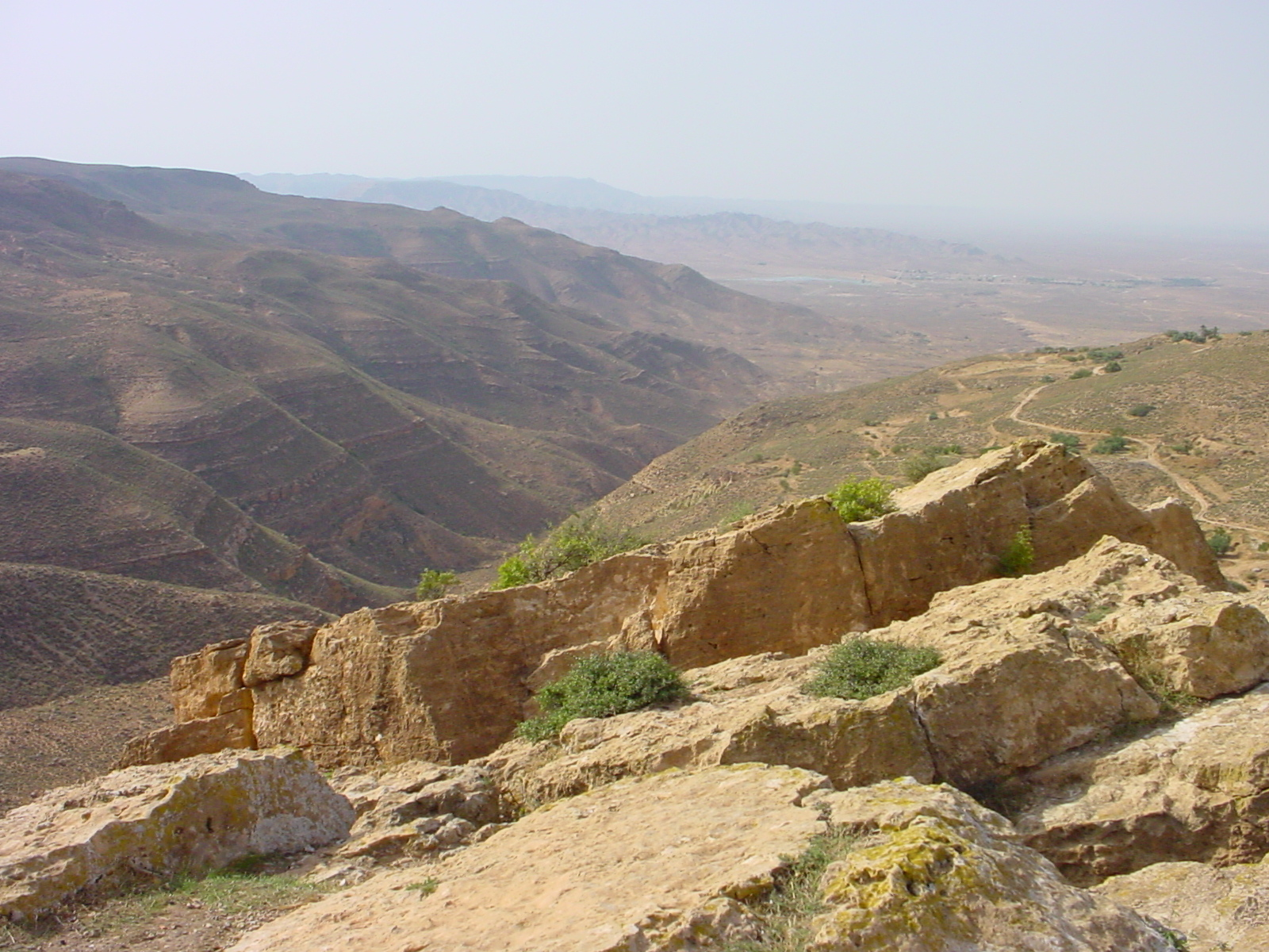 Al Asabia.